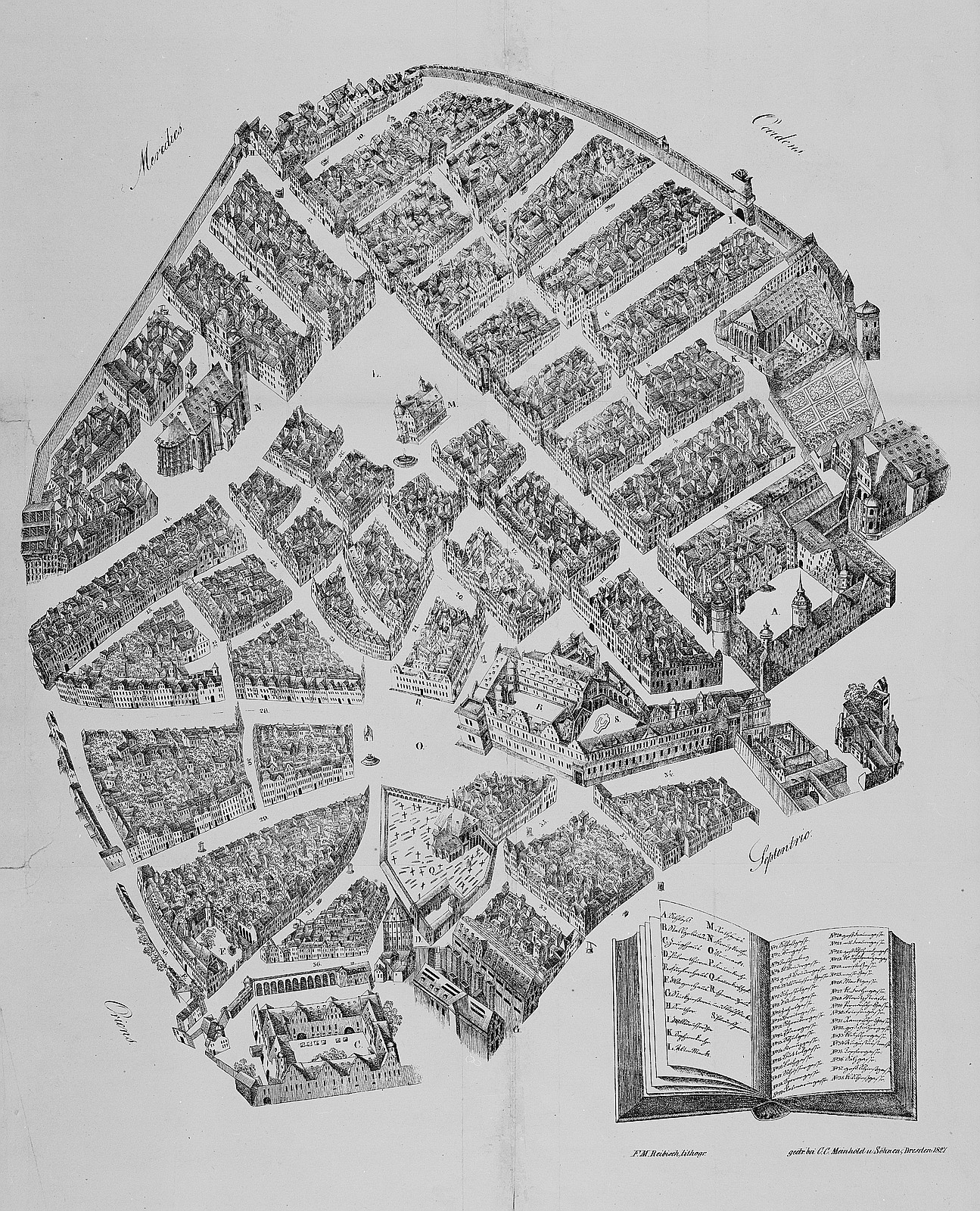 Perspective map of Dresden in 1634, lithography